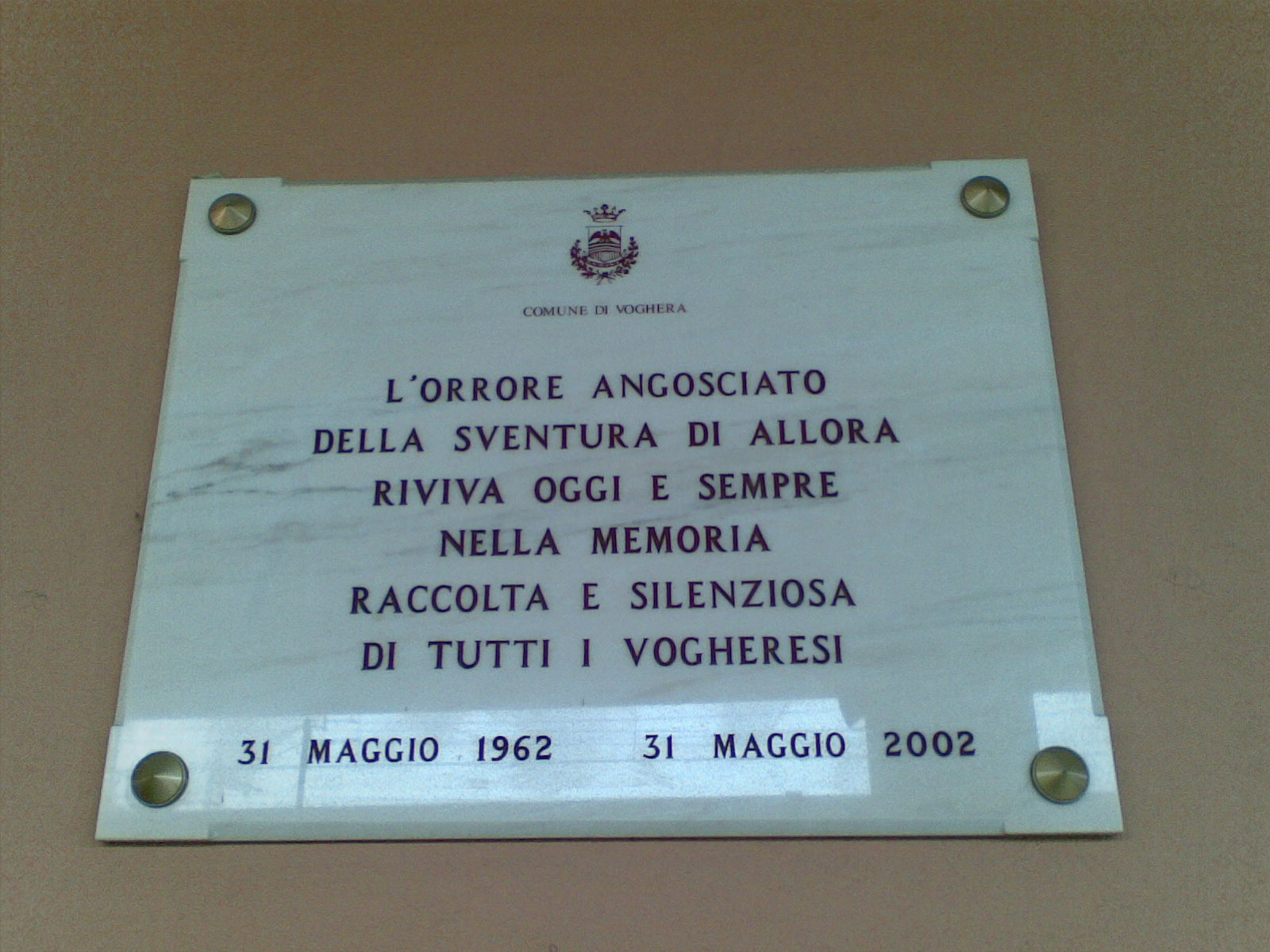 Voghera railway accident